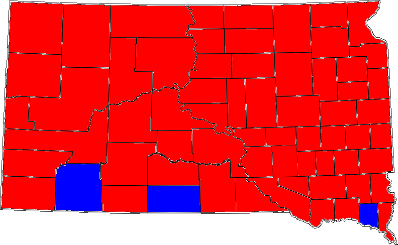 1980 South Dakota Senate election results by county.